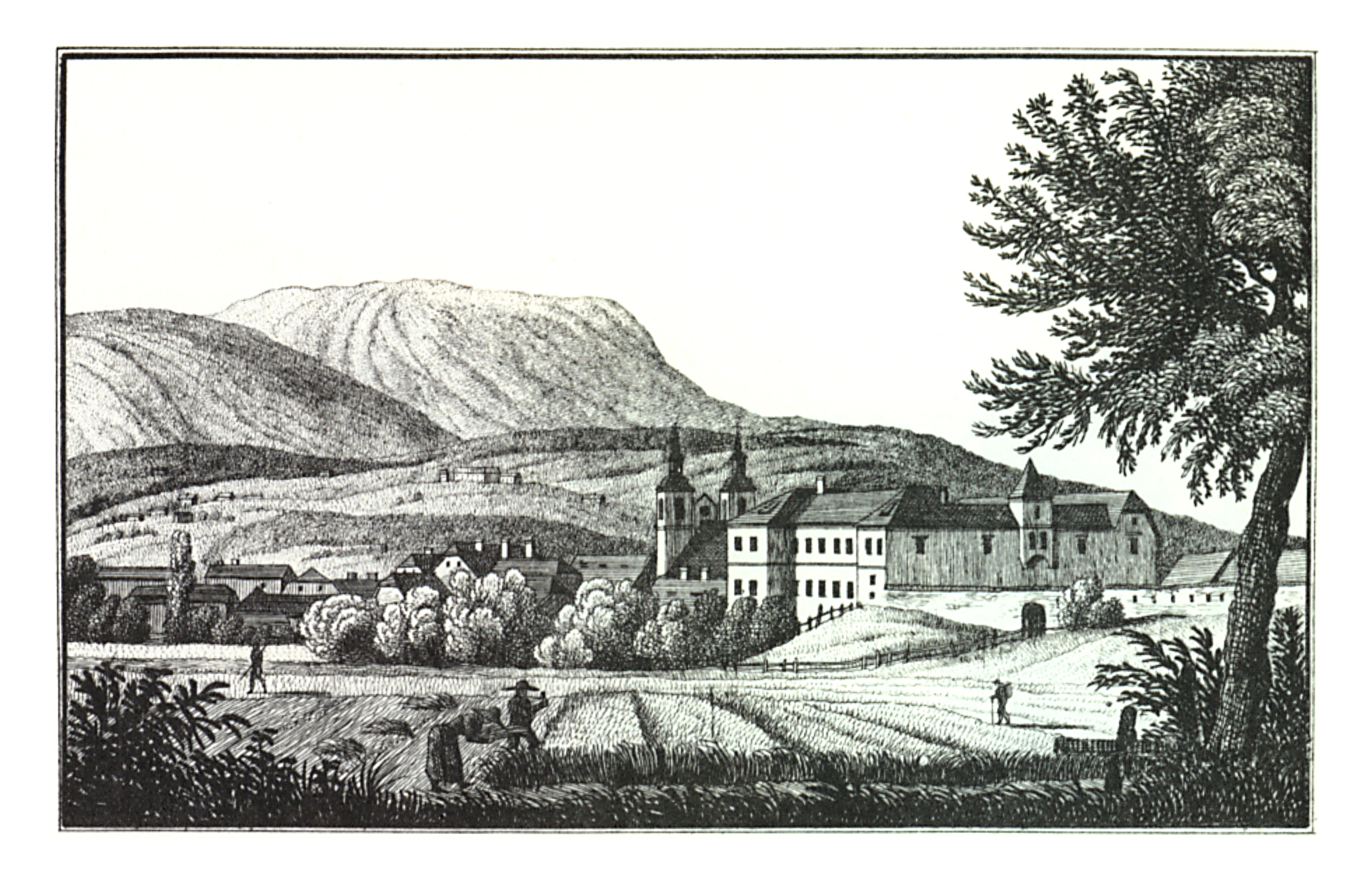 J. F. Kaiser - lithographirte Ansichten der Steyermärkischen Städte, Märkte und Schlösser, Graz 1824-1833 Joseph Franz Kaiser (1786–1859) Alternative names J. F. KaiserDescriptionAustrian printer and editorDate of birth/death 11 March 1786 19 September 1859Location of birth/death Graz (Styria) GrazAuthority control : Q1499963 VIAF: 30629353 ISNI: 0000 0000 3083 0153 LCCN: n87141671 GND: 129880159 NLP: A24960305 WorldCat creator QS:P170,Q1499963 . Scanprojekt Community Projektbudget 2012 This scan or this PDF-file was created within the GLAM-project Bookscanning, supported by Wikimedia Germany and Wikimedia Austria as a part of the community-project to capture books, documents and pictures which are not eligible to copyright or for which the copyright has expired. This document describes or depicts an object which is located in Austria today. Send requests for uncompressed scans to Hubertl. This work is in the public domain in its country of origin and other countries and areas where the copyright term is the author's life plus 100 years or less. You must also include a United States public domain tag to indicate why this work is in the public domain in the United States. This file has been identified as being free of known restrictions under copyright law, including all related and neighboring rights.